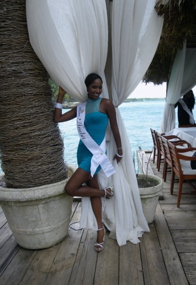 Carol Bruyning, Top 5 finalist in Miss Aruba Universe 2008 and Aruba's representative for Miss Ambar World 2009